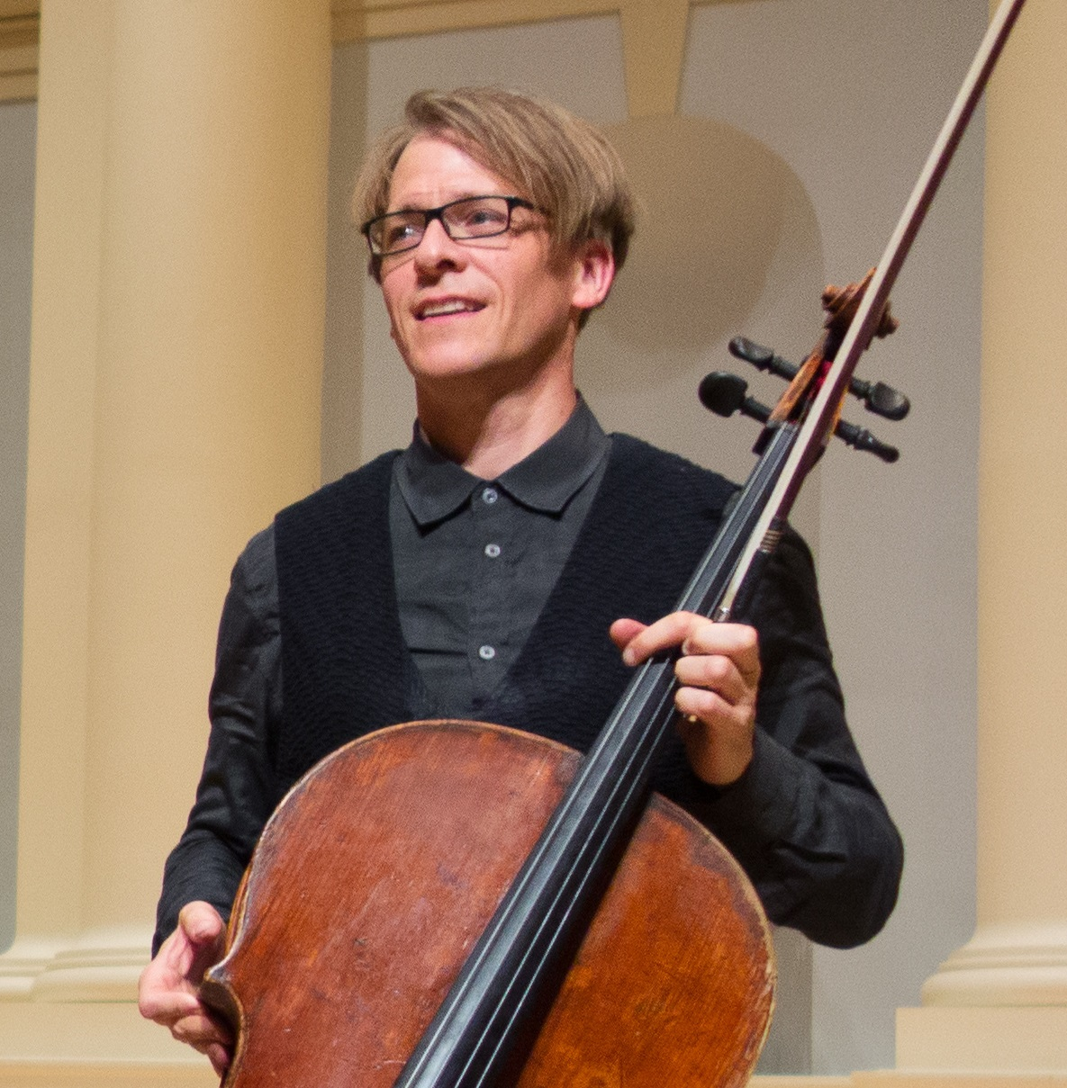 Alban Gerhardt in 2014